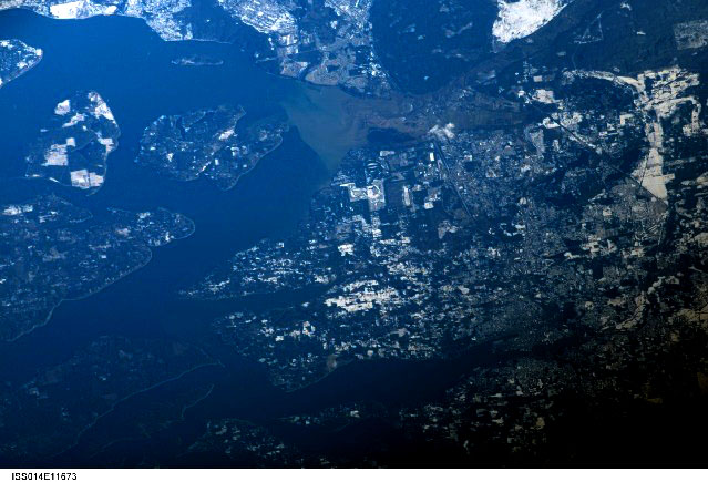 Astronaut Photography of Olympia Washington taken from the International Space Station (ISS)